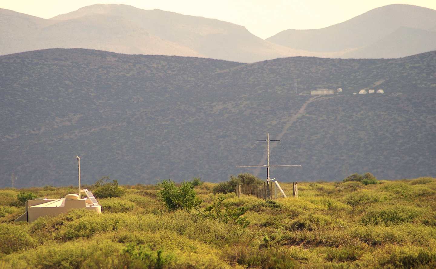 Detector components of the Pierre Auger Observatory, Malargüe Argentina.